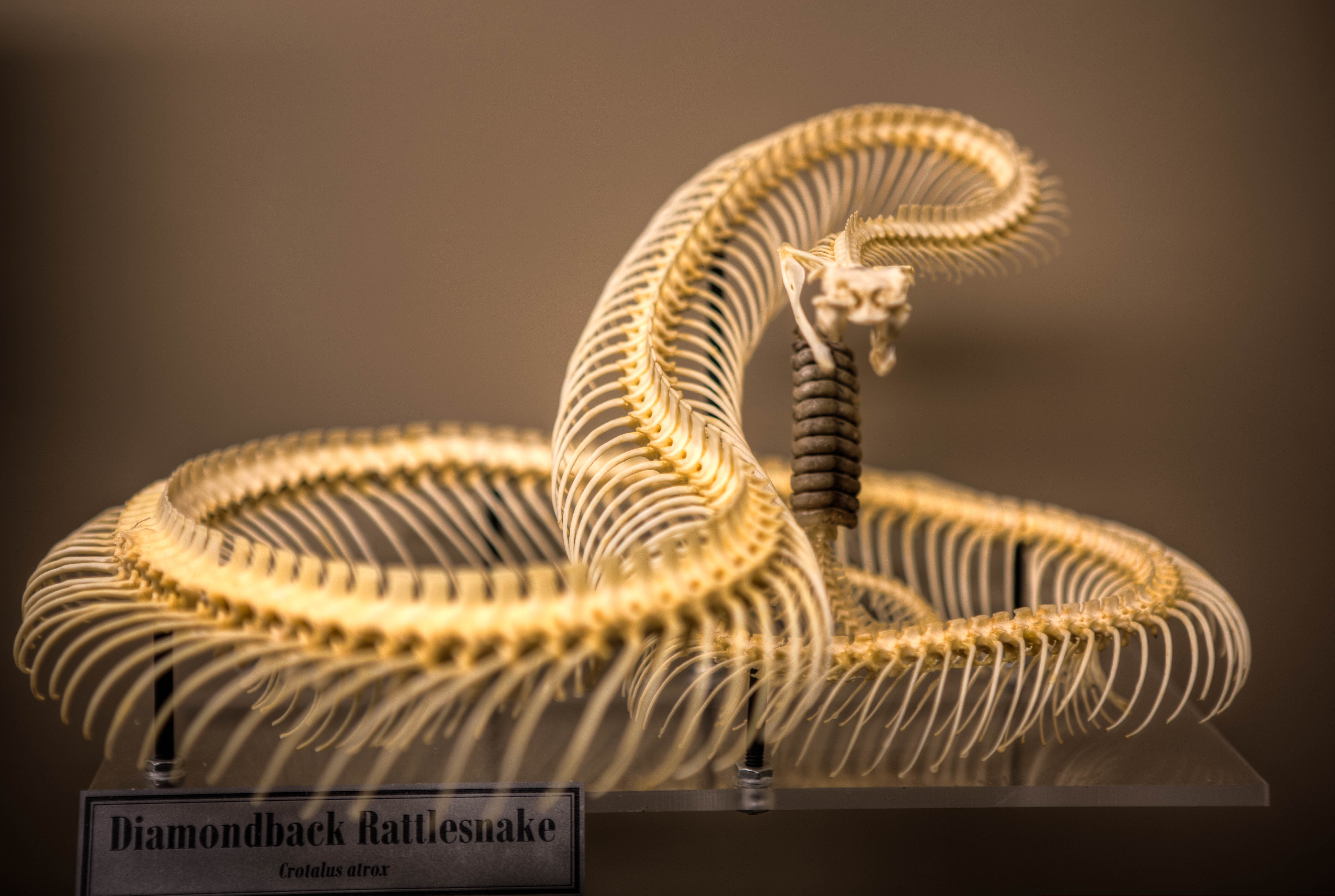 A skeleton of a western diamondback rattlesnake at the Museum of Osteology, Oklahoma City, Oklahoma, USA.